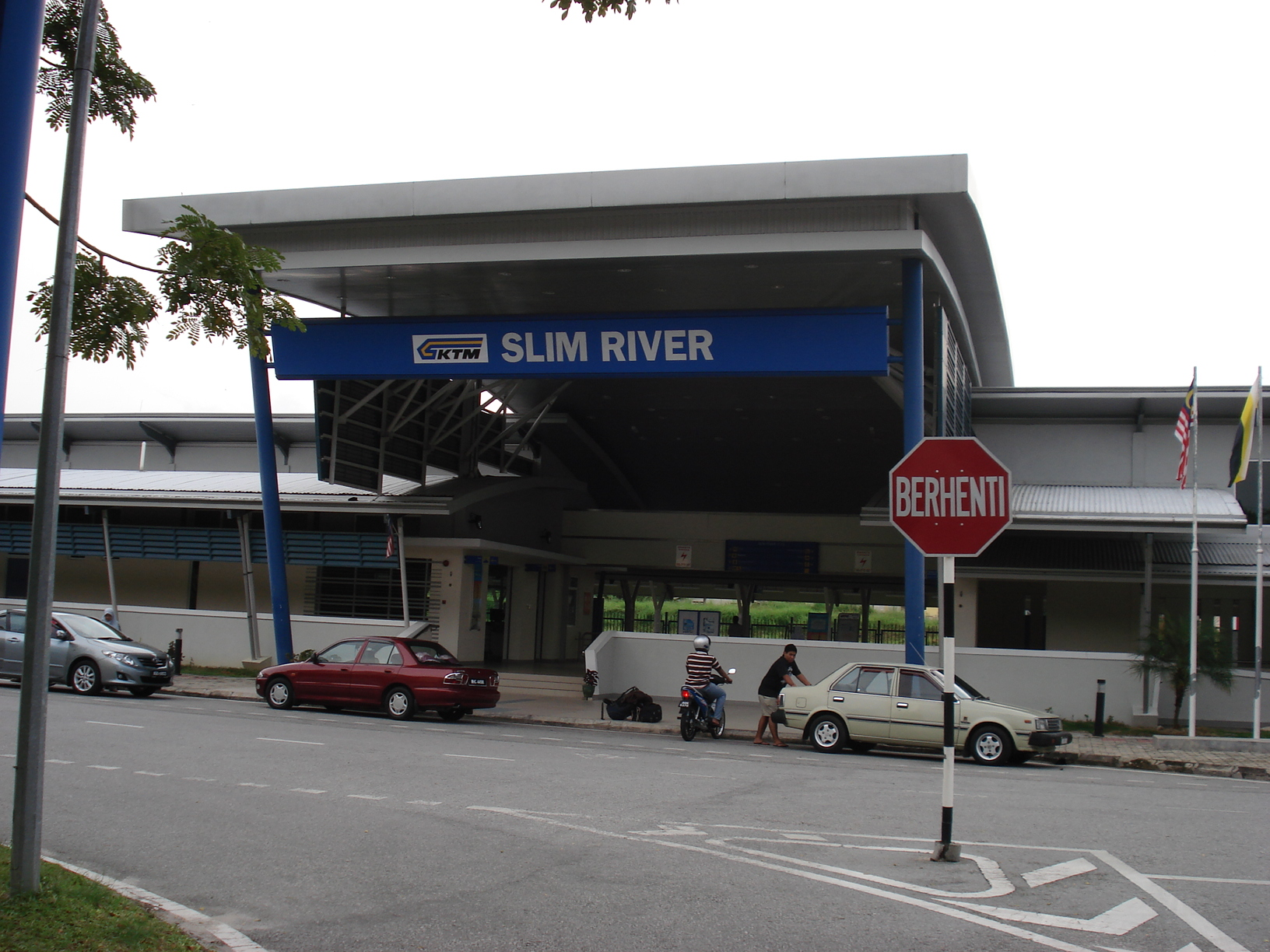 Front view of Slim River railway station